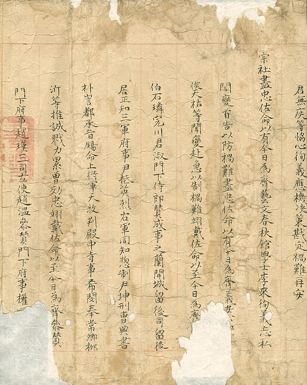 National Treasure #1469 Ma Cheon-mok Jwa-myung-gong-shin-nok-gwon(馬天牧佐命功臣錄券)